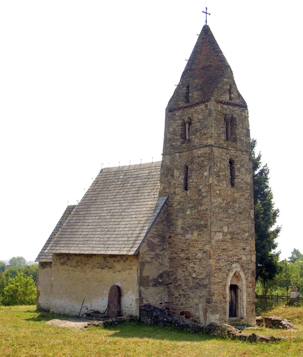 The church in Strei, Hunedoara, Romania seen from the North-West